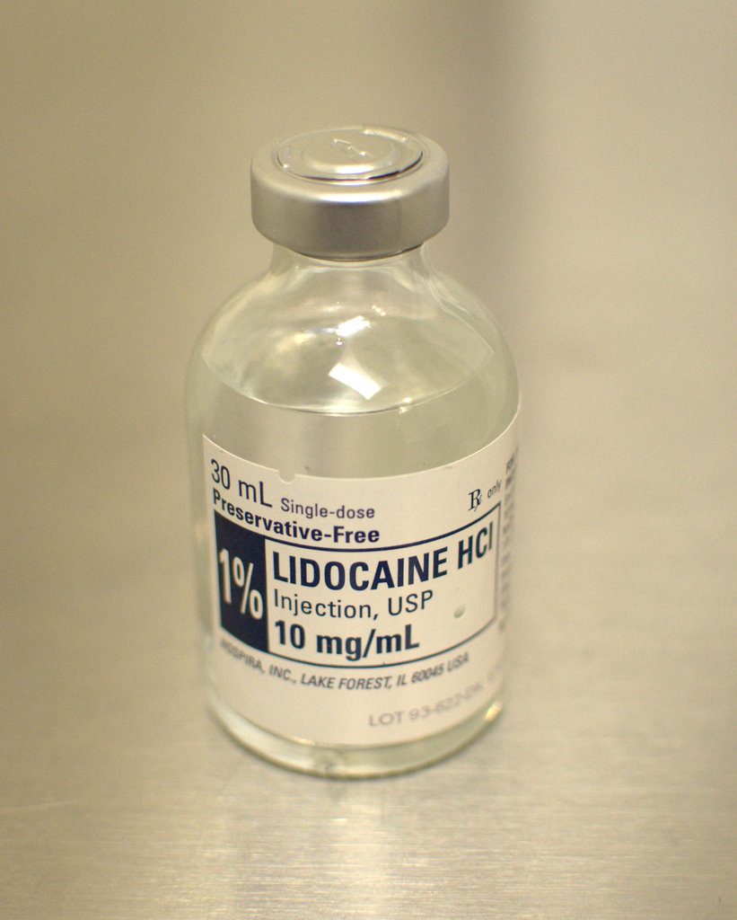 Lidocaine HCl